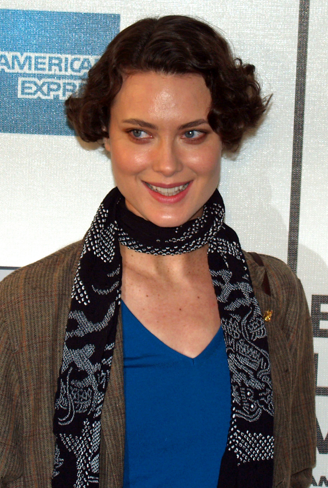 Shalom Harlow by David Shankbone